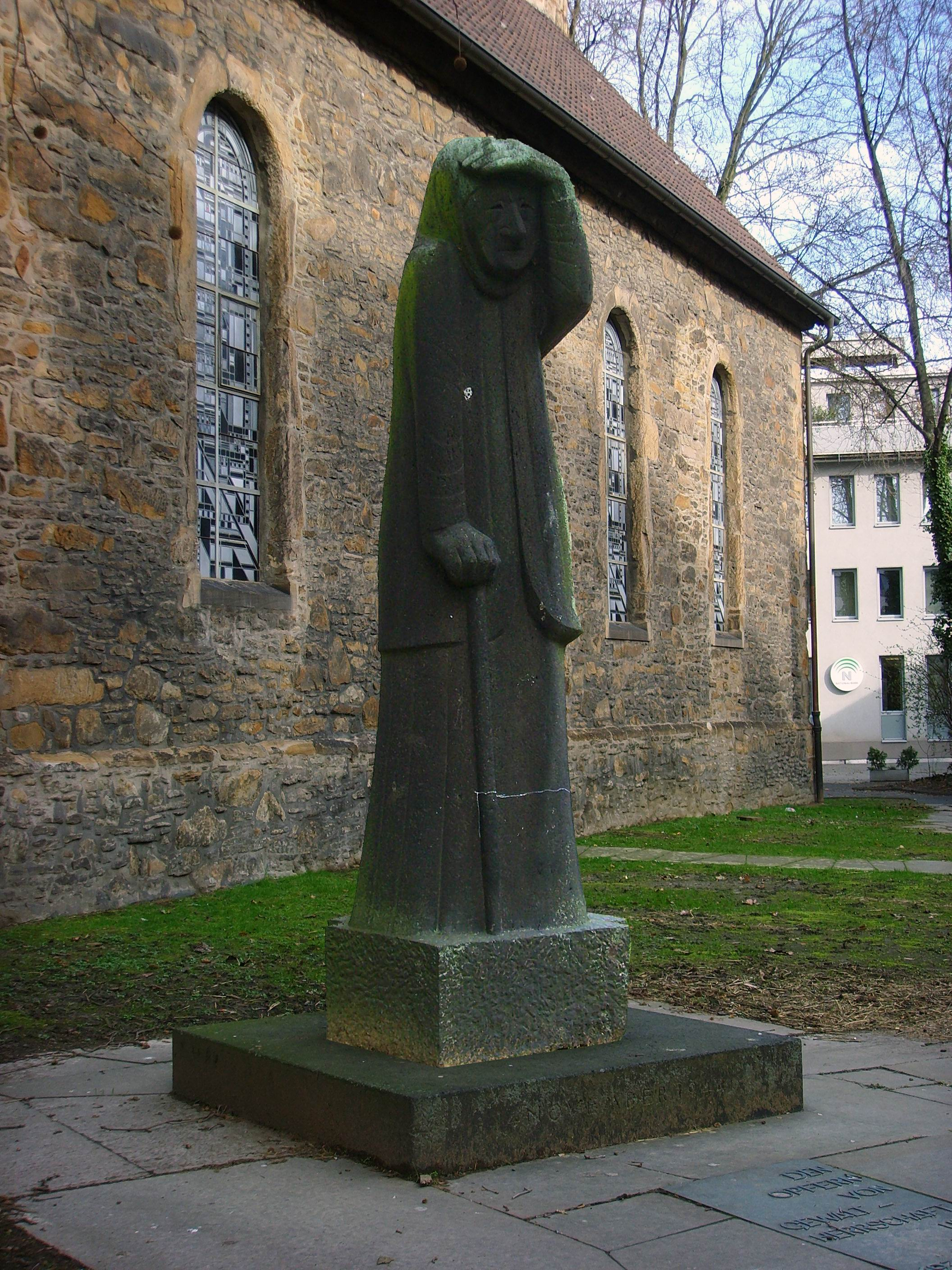 Die "Trauernde Alte", eine Skulptur von Gerhard Marks in Bochum : A sculptur from Gerhard Marks, called "The mourner old Woman" Source: own work Date: March 05, 2008, Bochum, Germany Author: Maschinenjunge Licence: GFDL, cc-by 3.0